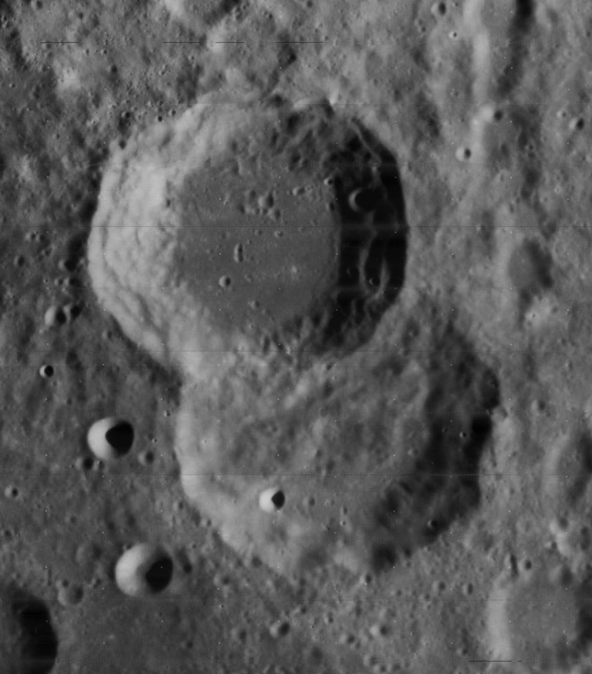 Steinheil crater (top), and Watt (bottom), on the moon.